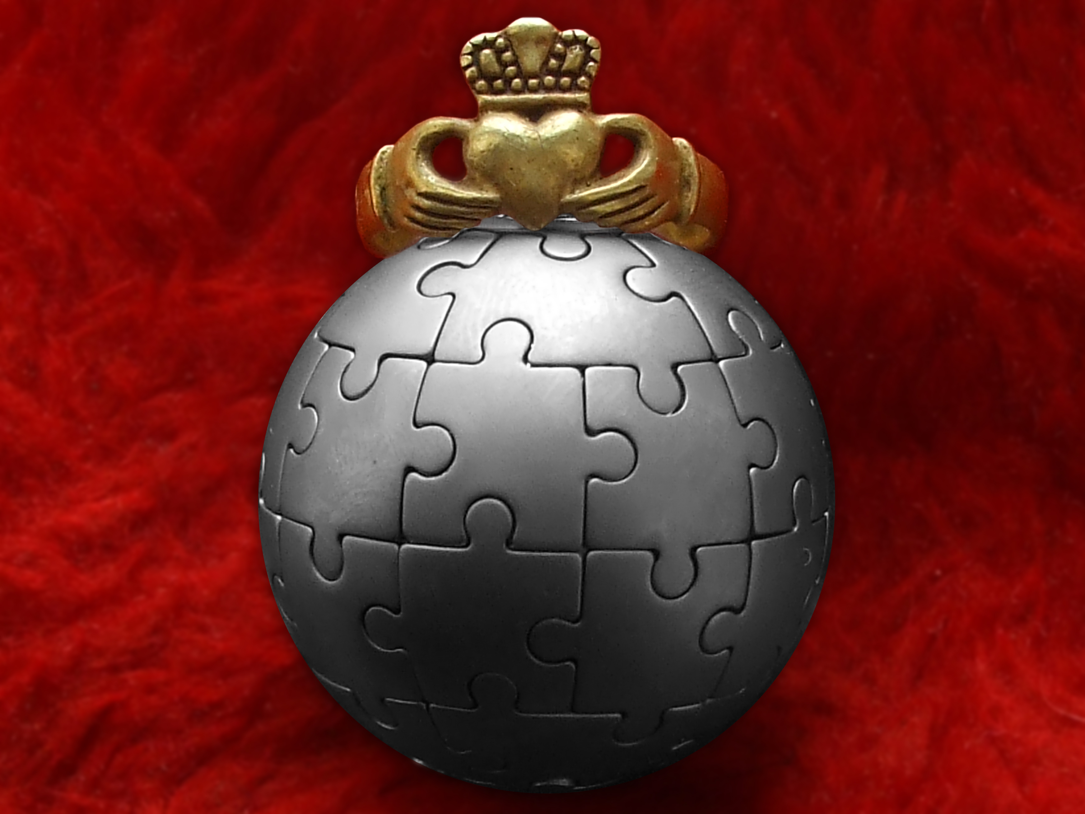 Brass Claddagh ring at spherical puzzle-keychain.